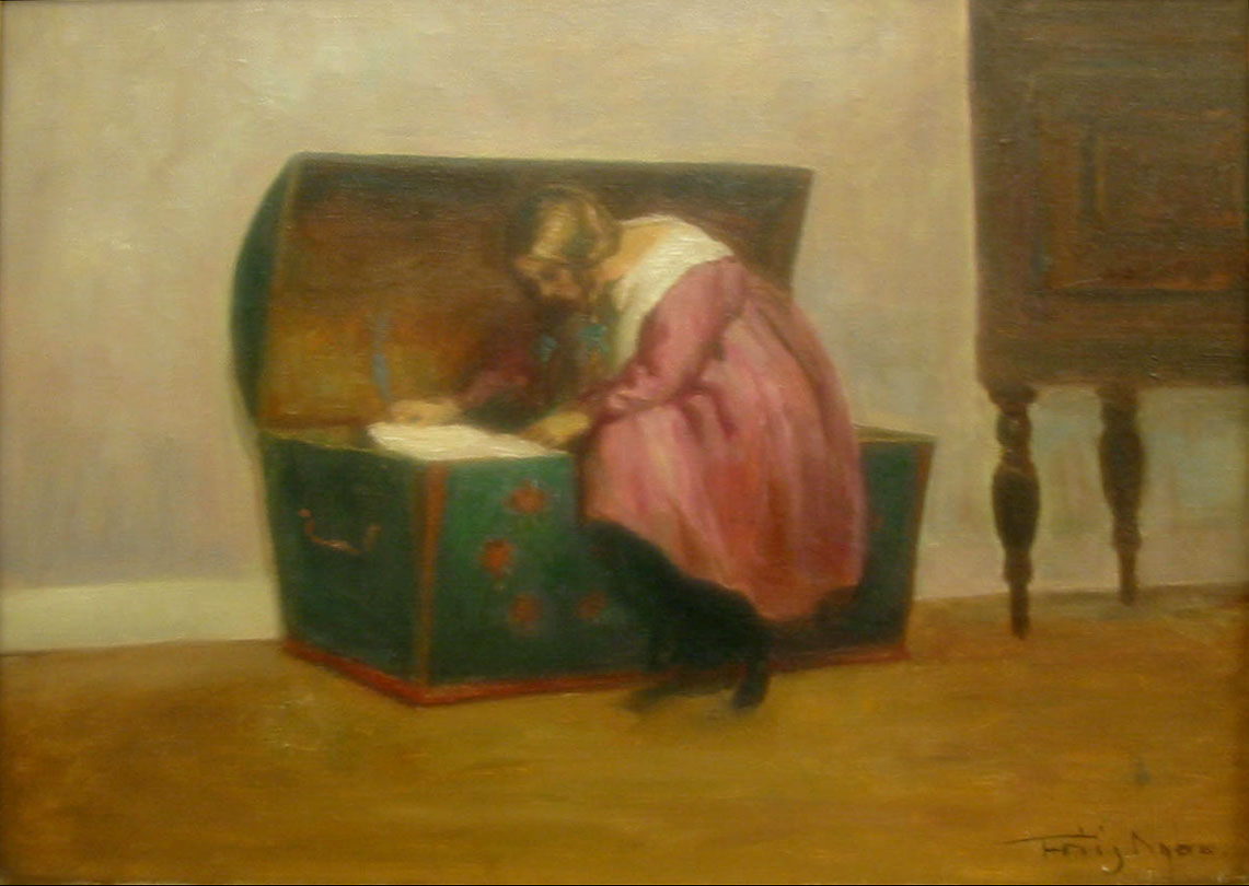 Girl Inspecting Her Hope Chest; 17 inches x 12 inches